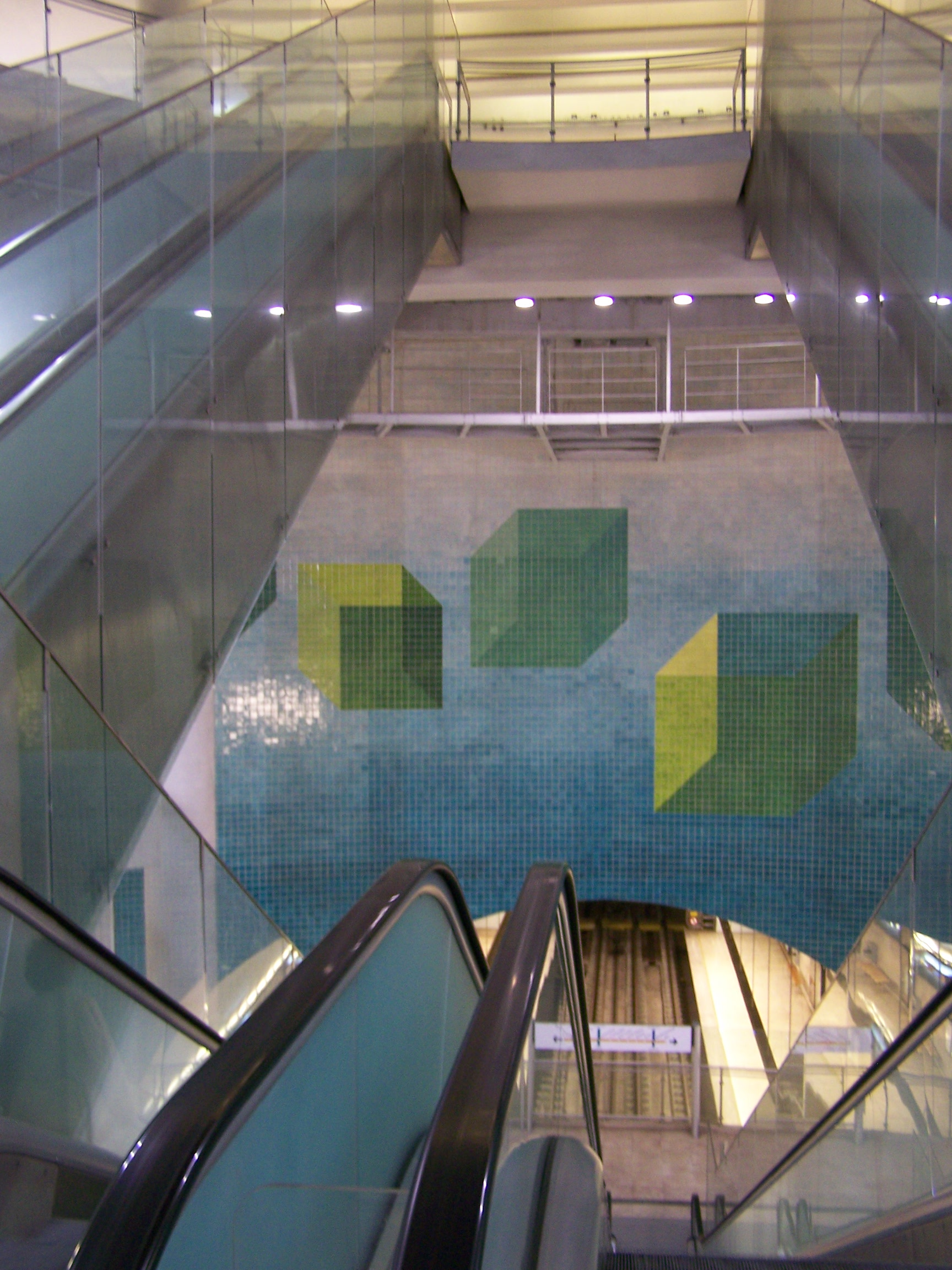 escalators at Ameixoeira metro station (Yellow Line) in Lisbon, Portugal